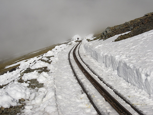 Snowdon railway towards the Snowdon Ranger path The track of the Snowdon Mountain Railway has been dug out of the snow drifts in preparation for work re-starting on the summit cafe project. In the distance the two walkers are where the Snowdon Ranger path crosses the line.